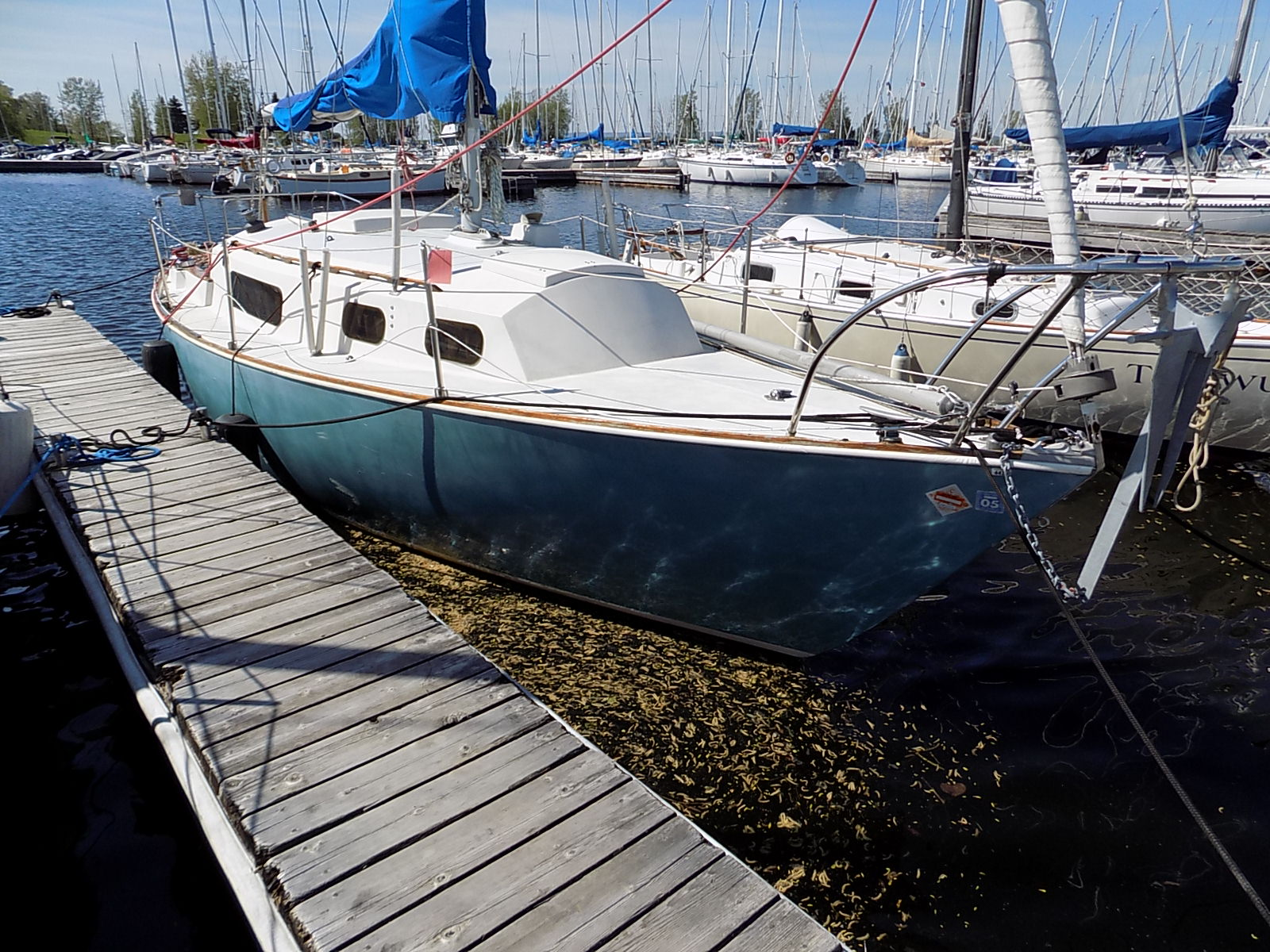 A Sabre 28 sailboat named Divine Wind.